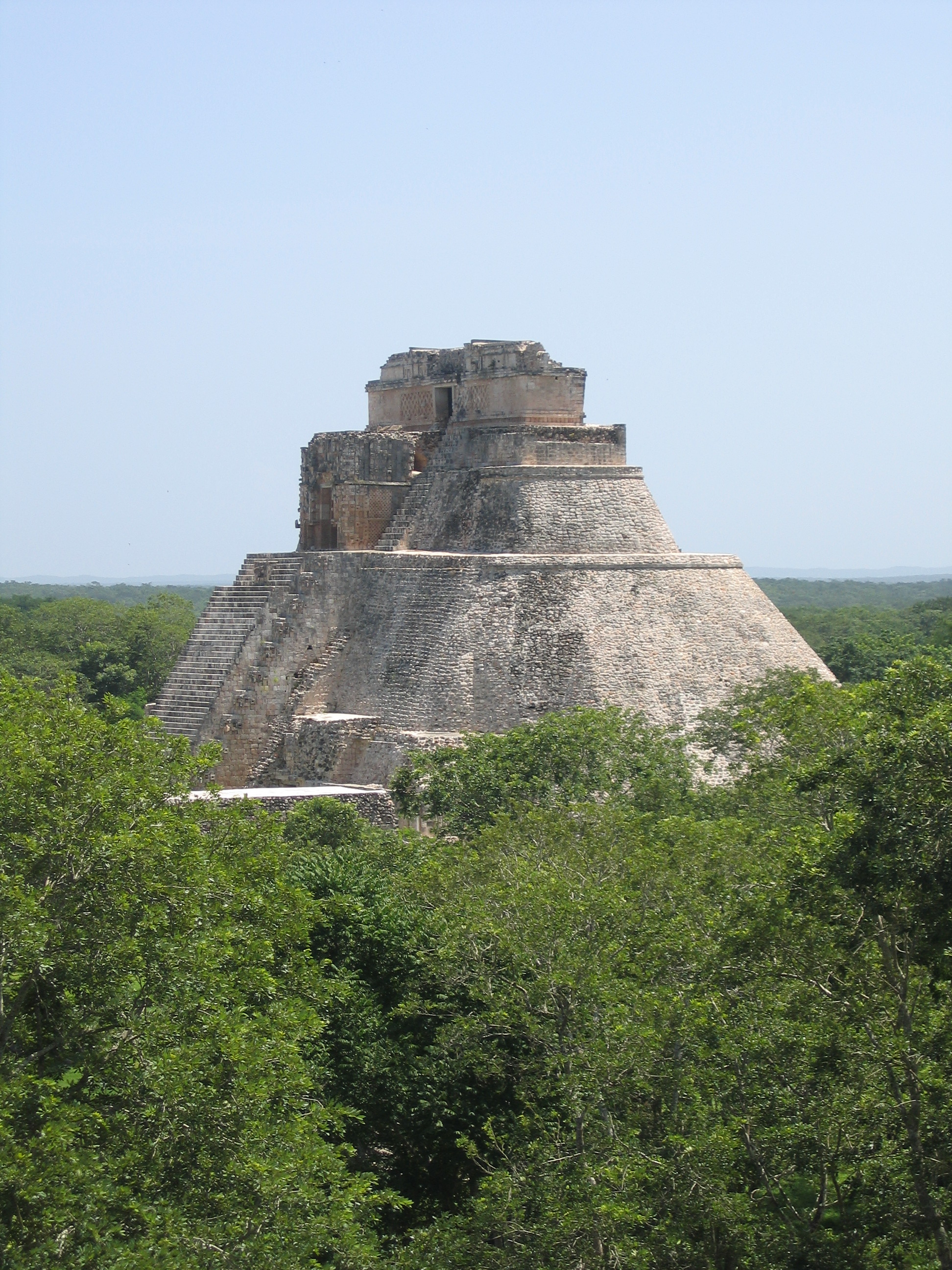 Uxmal (Mexico), Pyramid of the Magician, August 2006